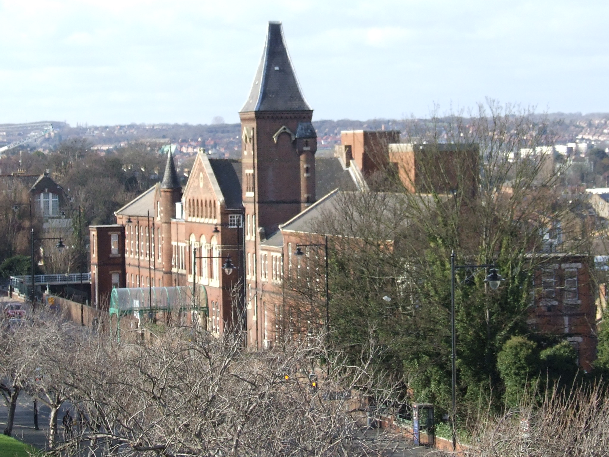 Taken with a long lens from Fort Pitt, Chatham St Barthomews hospital, Rochester